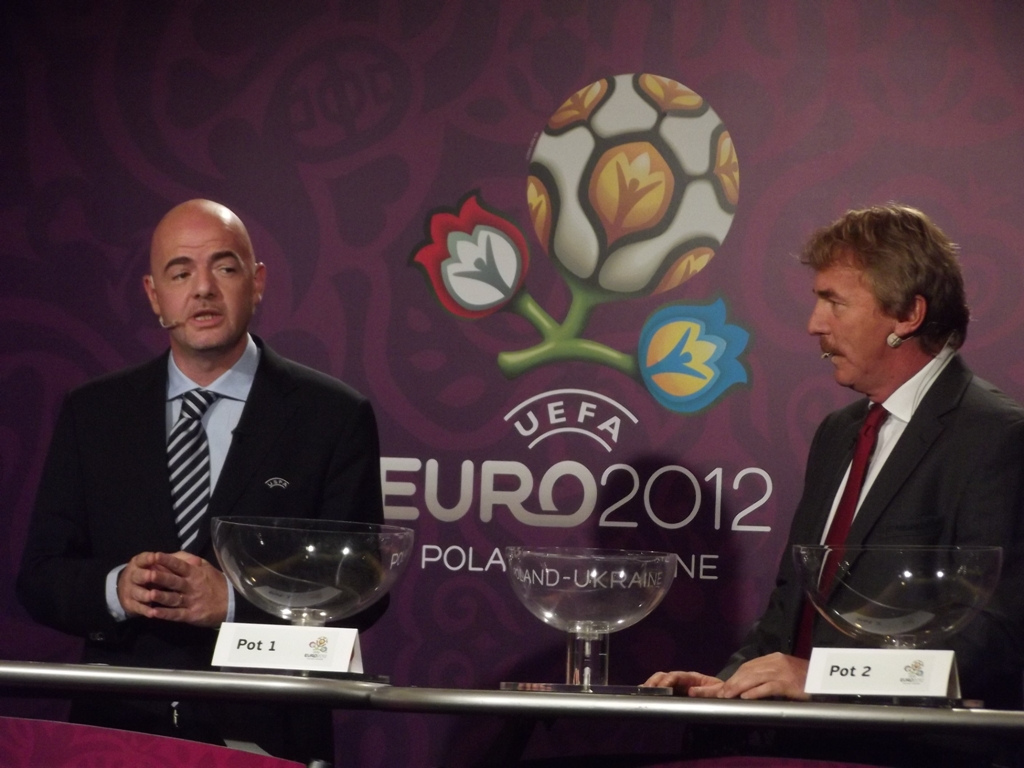 Gianni Infantino (left) and Zbigniew Boniek (right) during UEFA EURO 2012 qualifying play-offs draw, that took place in Sheraton Hotel in Cracow.